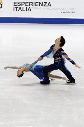 Tong Jian/Pang Qing at the 2010 World Championships (SP).